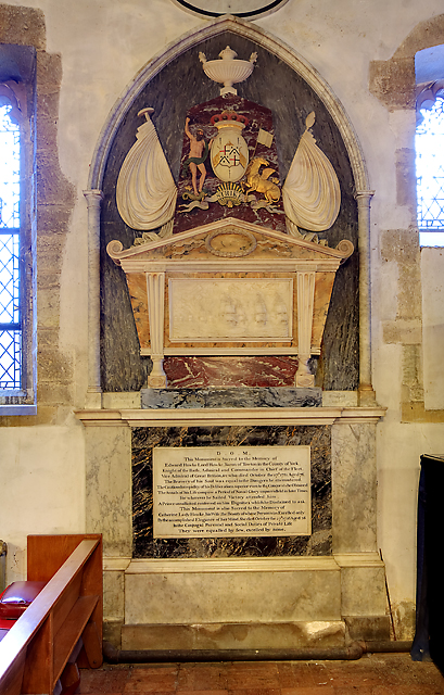 Monument to Admiral Lord Hawke - St Nicolas' church, North Stoneham. In 1737 he married Catherine Brooke, the only the daughter and sole heiress[1] of Walter Brooke (1695-1722)[2] of Burton Hall near Hull[3] and of Gateforth Hall[4] in Yorkshire, by his wife Catherine Hammond (d.1721) daughter and heiress of William Hammond of Scarthingwell Hall,[3] in the parish of Towton, Yorkshire.[5][6] Hawke made his home at Scarthingwell Hall and took for his barony the territorial designation "of Towton" from the parish in which it was situated. Arms: Arms, as quartered by the descendants of Admiral Lord Hawke: Quarterly 1st and 4th argent, a chevron erminois between three boatswain's whistles purple (Hawke), 2nd and 3rd grand-quarter quarterly, 1st and 4th or, a cross engrailed gules (Brooke), 2nd and 3rd argent, a chevron engrailed sable between three mullets sable (Hammond of Scarthingwell, a Brooke heiress).